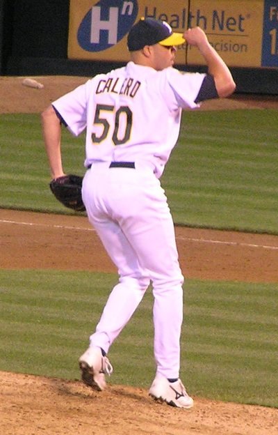 Photo by Justin Lafferty 08:43, 7 December 2006 . . Jlaff . . 400×624 (66,831 bytes)